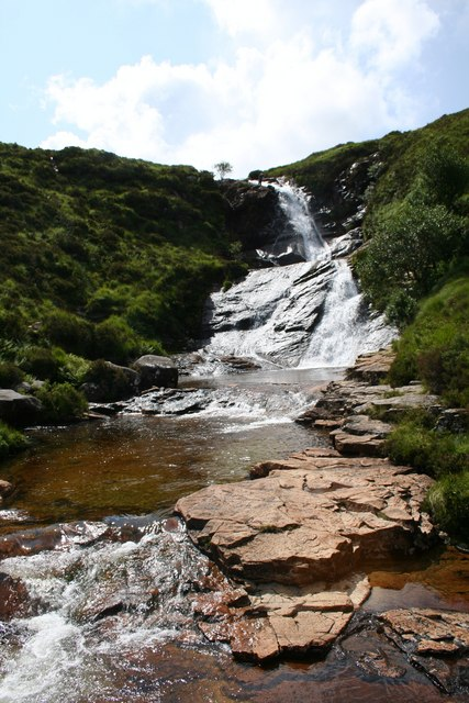 Eas a Bhradain A spectacular roadside waterfall feeding nearby Loch Ainort.